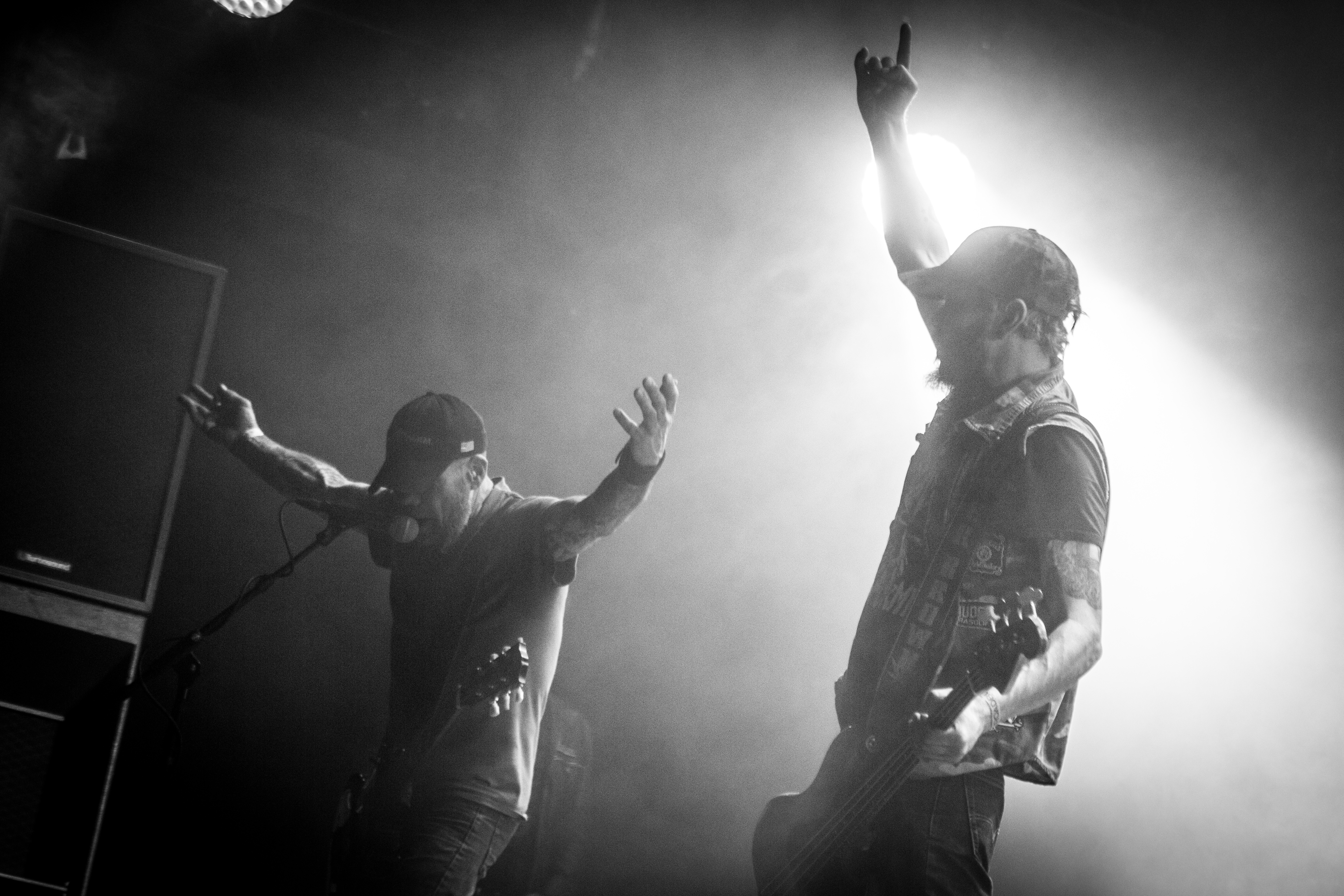 Bongzilla live at Roadburn Festival, Tilburg, April 2017